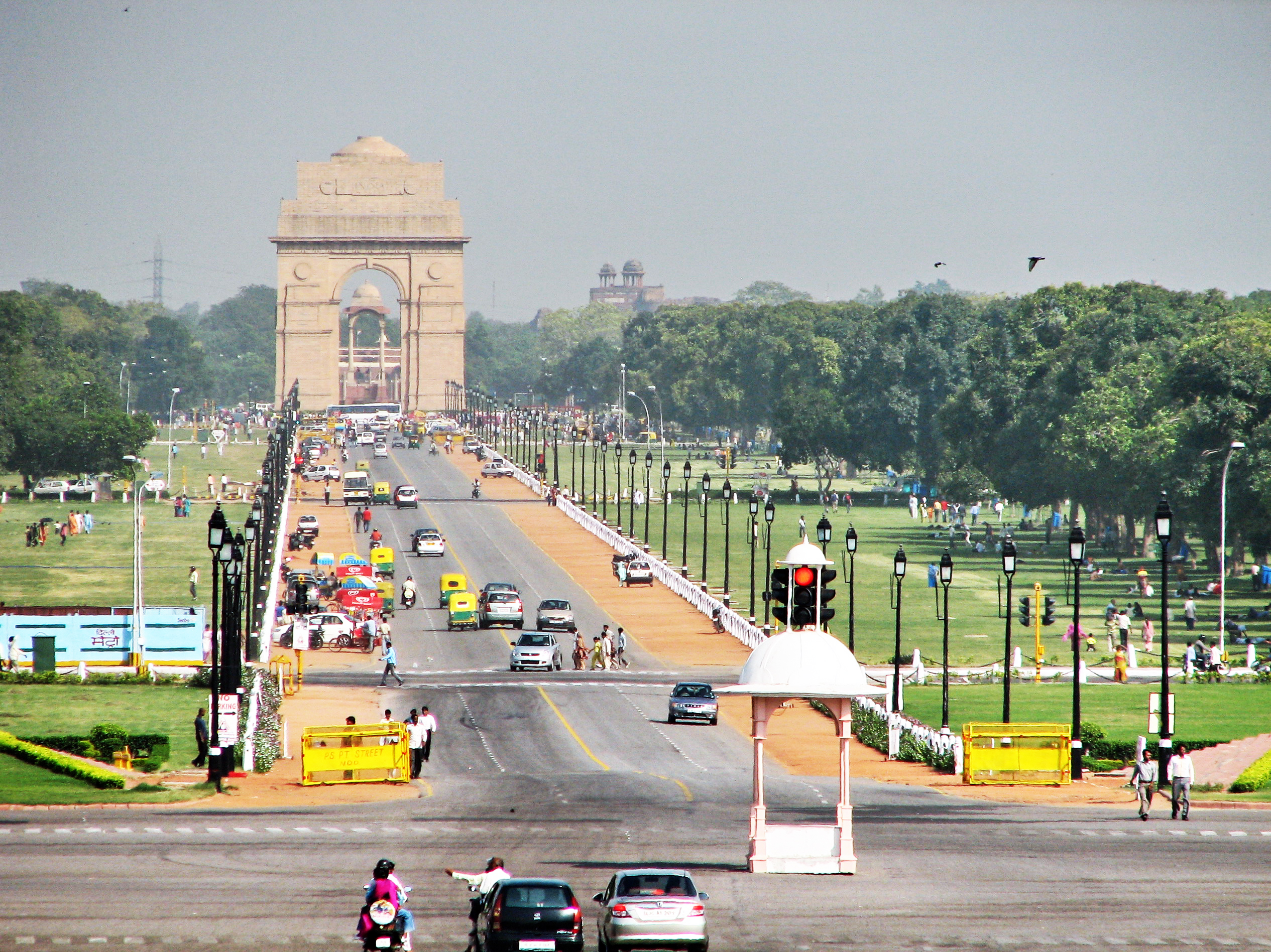 India gate, New Delhi.